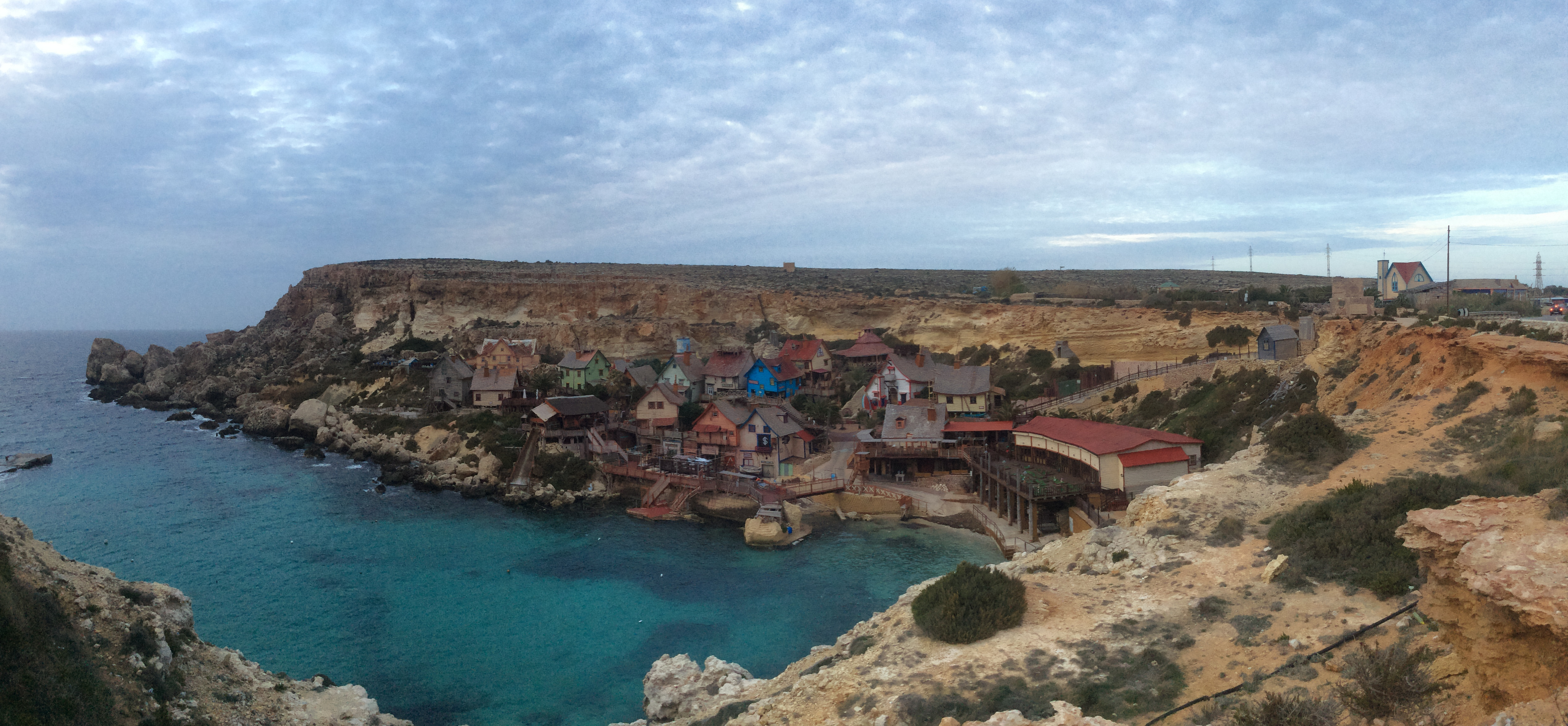 Popeye Village